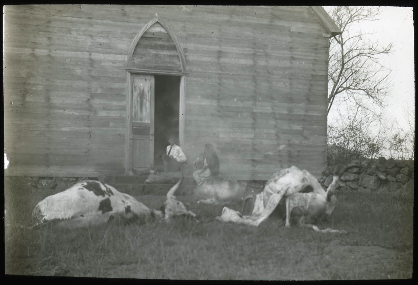 Lantern Slide (black and white); two dead cows (one carcass) on the grass in the foreground; a small lit fire; front of a large wooden church with a White(?) man wearing a shirt and tie sitting by the doorway, with a woman holding a child beside him; Hangaroa, Easter Island.